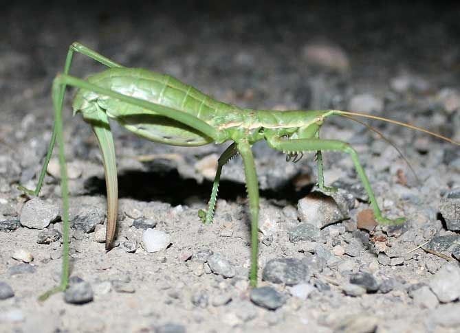 Saga pedo (Pallas, 1771) a European parthenogenetic species of predatory katydid, preparing for oviposition in soil. In Pompignan, France. The French name seems to mean something like "the saw-toothed sorceress". (Hexapoda, Orthoptera, Tettigoniidae, Saginae)